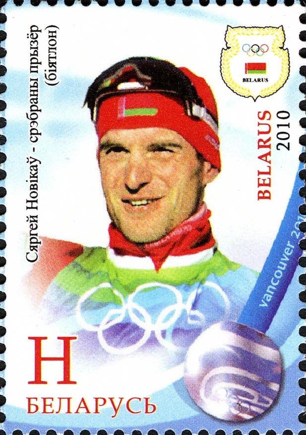 Sergey Novikov - Silver medalist XXI Olympic Winter Games in Vancouver (biathlon)